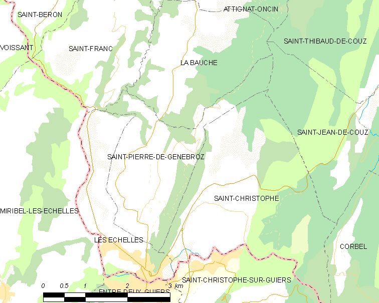 Map of French municipality Saint-Pierre-de-Genebroz